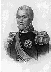 Krayenhoff, Cornelis Rudolphus Theodorus